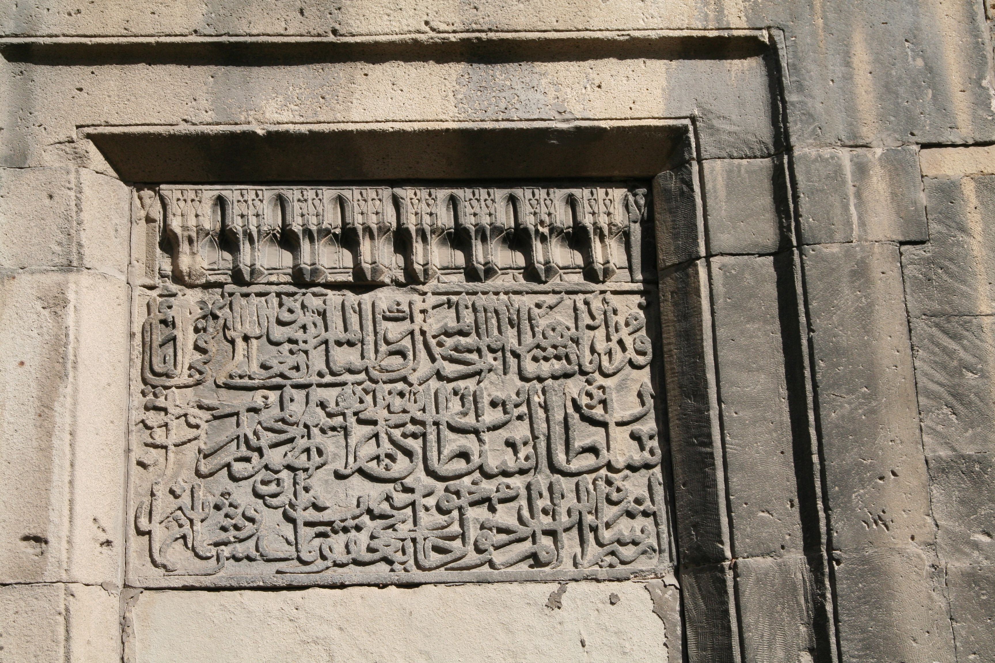 Sheikh İbrahim Mosque (kitabe above the door)